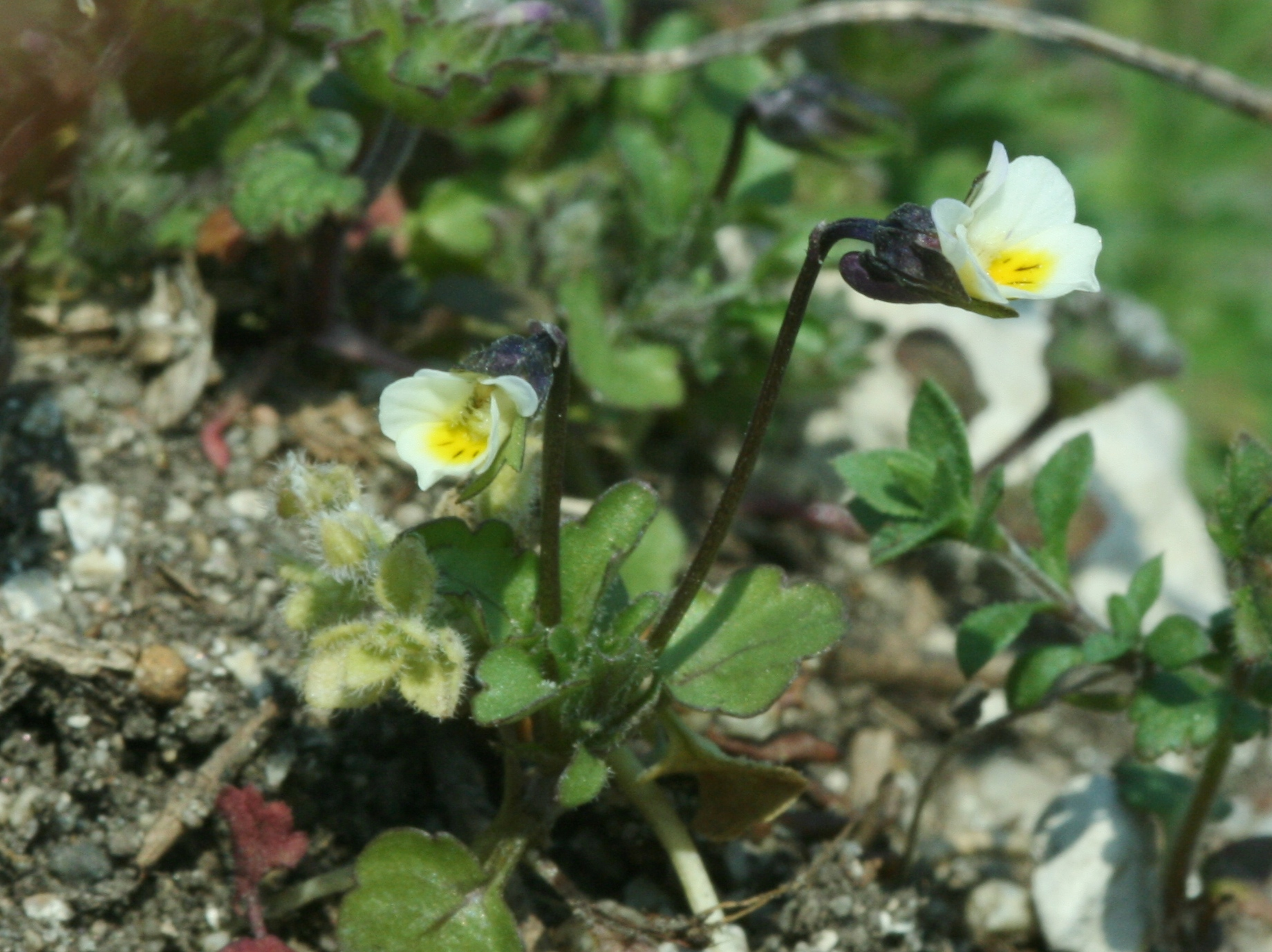 Flowering Viola kitaibeliana on Pálava, the only locality in Czech republic.